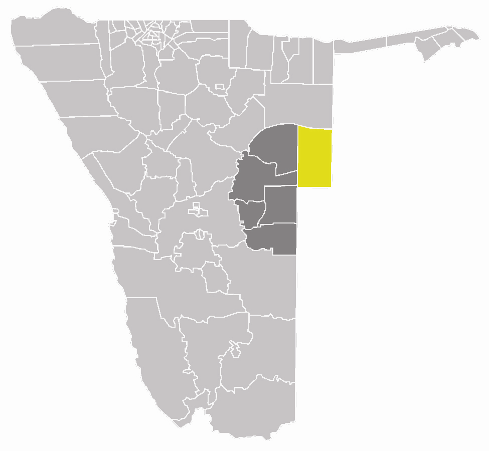 map of the Otjombinde constituency within the Omaheke region, Namibia